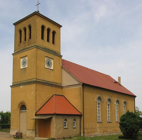 Round arch church in Lütte, a village (part) of the town Belzig in Brandenburg, Germany. Built in 1840 according to general plans by Karl Friedrich Schinkel for churchbuildings in the rural areas from Prussia.